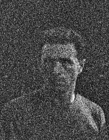 Northern Irish footballer Harry Gregg with the Manchester United team on 25 September 1963